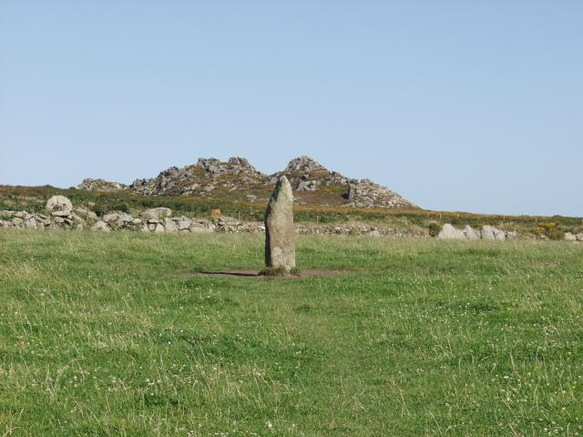 Men Scryfa. Engraved menhir, looking north toward Carn Galver